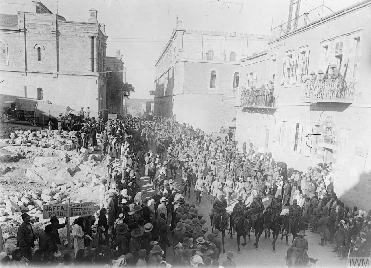 Prisoners captured in 2nd Transjordan operations march through Jerusalem